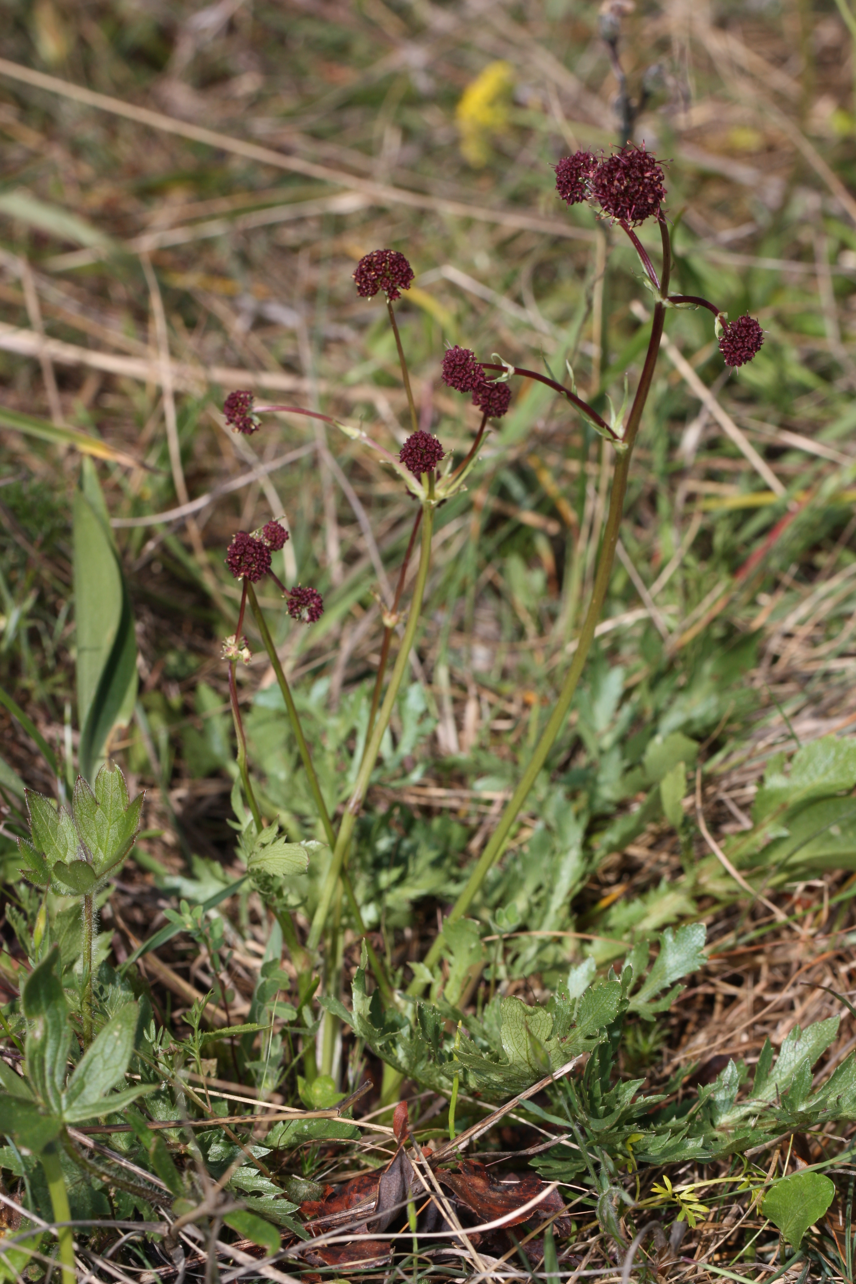 Purple Sanicle, Purple Black-snakeroot Viewpoint location: Goose Rock Summit Trail, Deception Pass State Park Viewpoint elevation: 136 meter (446 ft) Location source: Google Earth Location Datum: WGS84